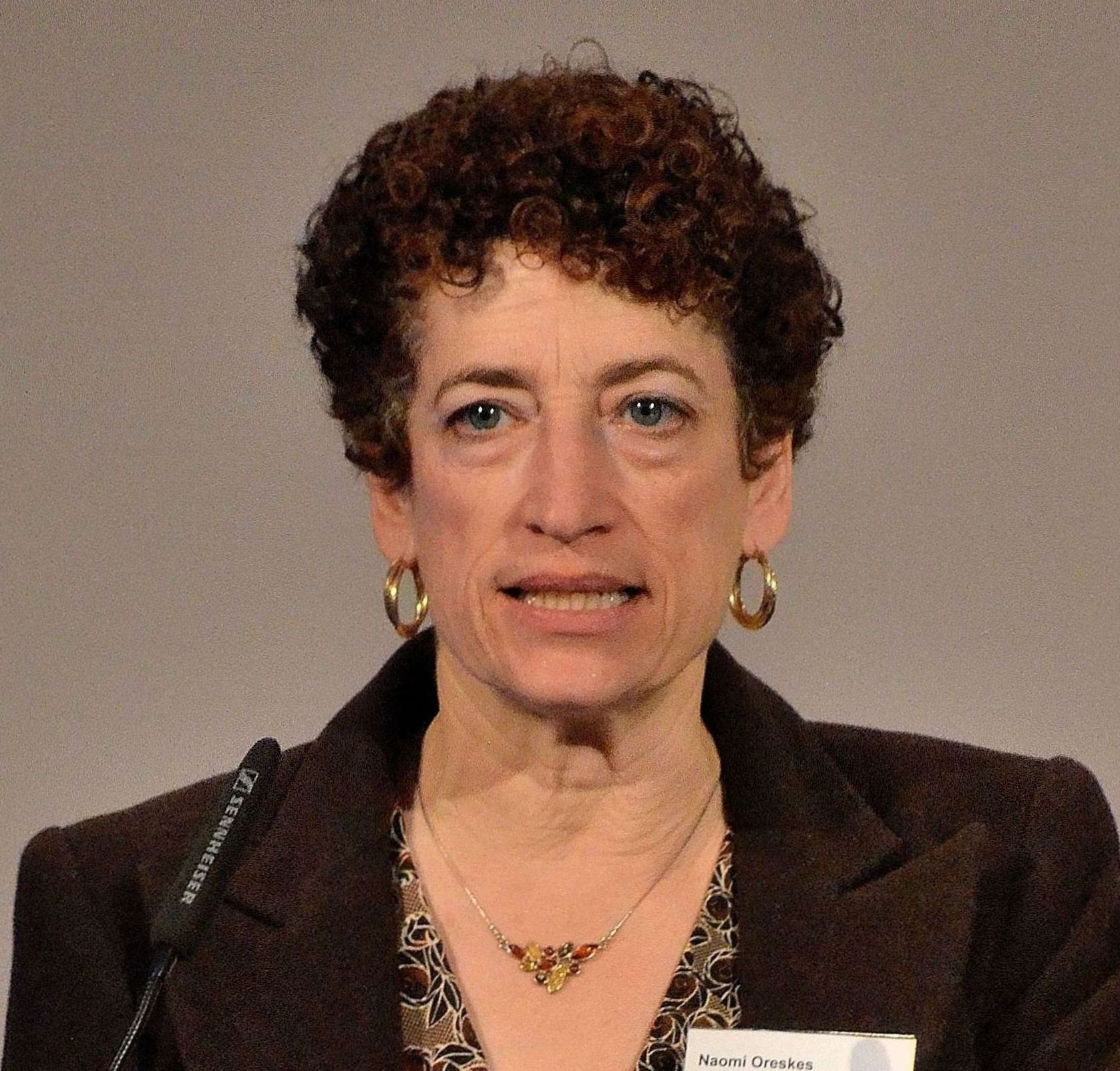 Professor Naomi Oreskes during 2nd European TA conference in Berlin